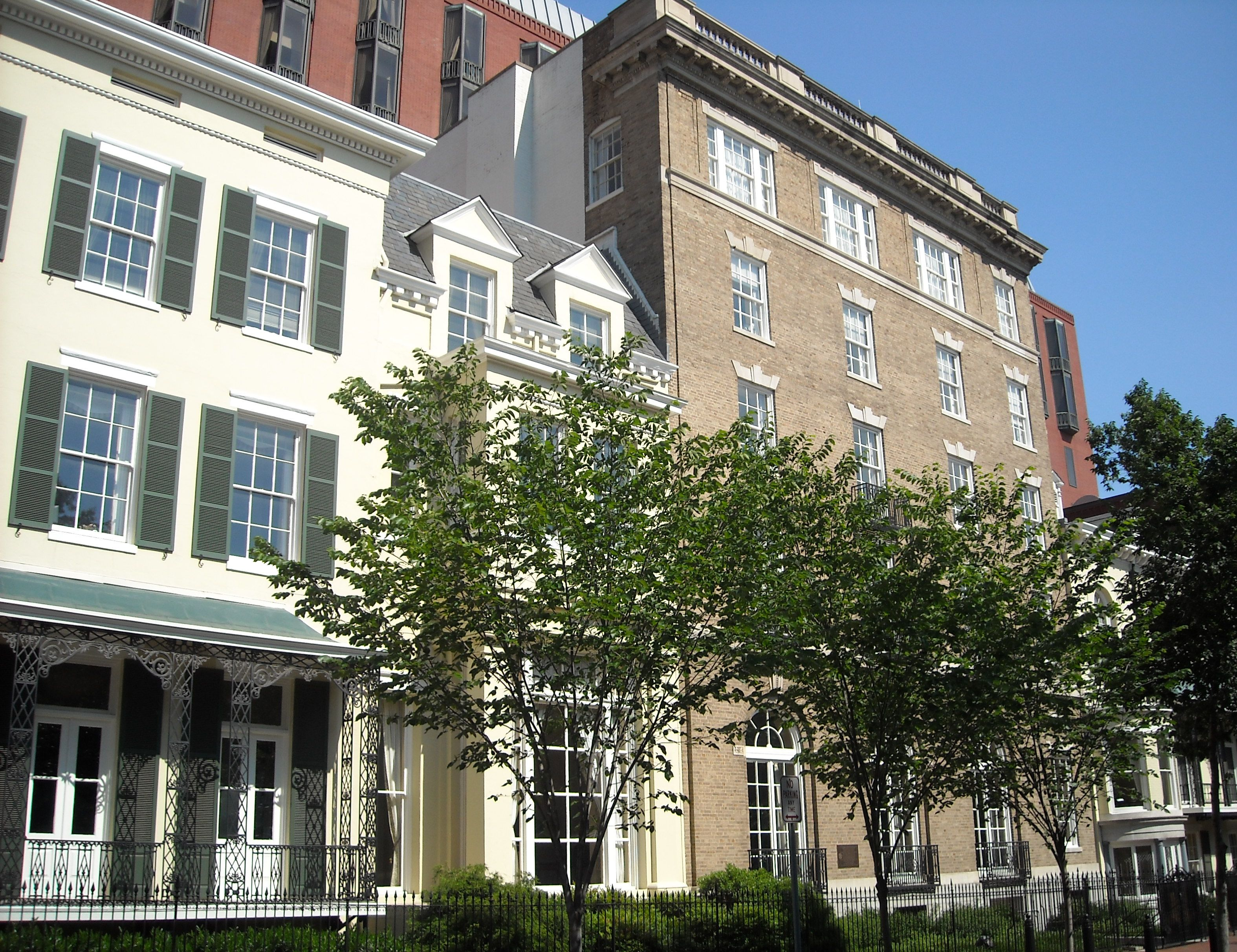 Madison Place, a street on the east side of Lafayette Park in Washington, D.C.